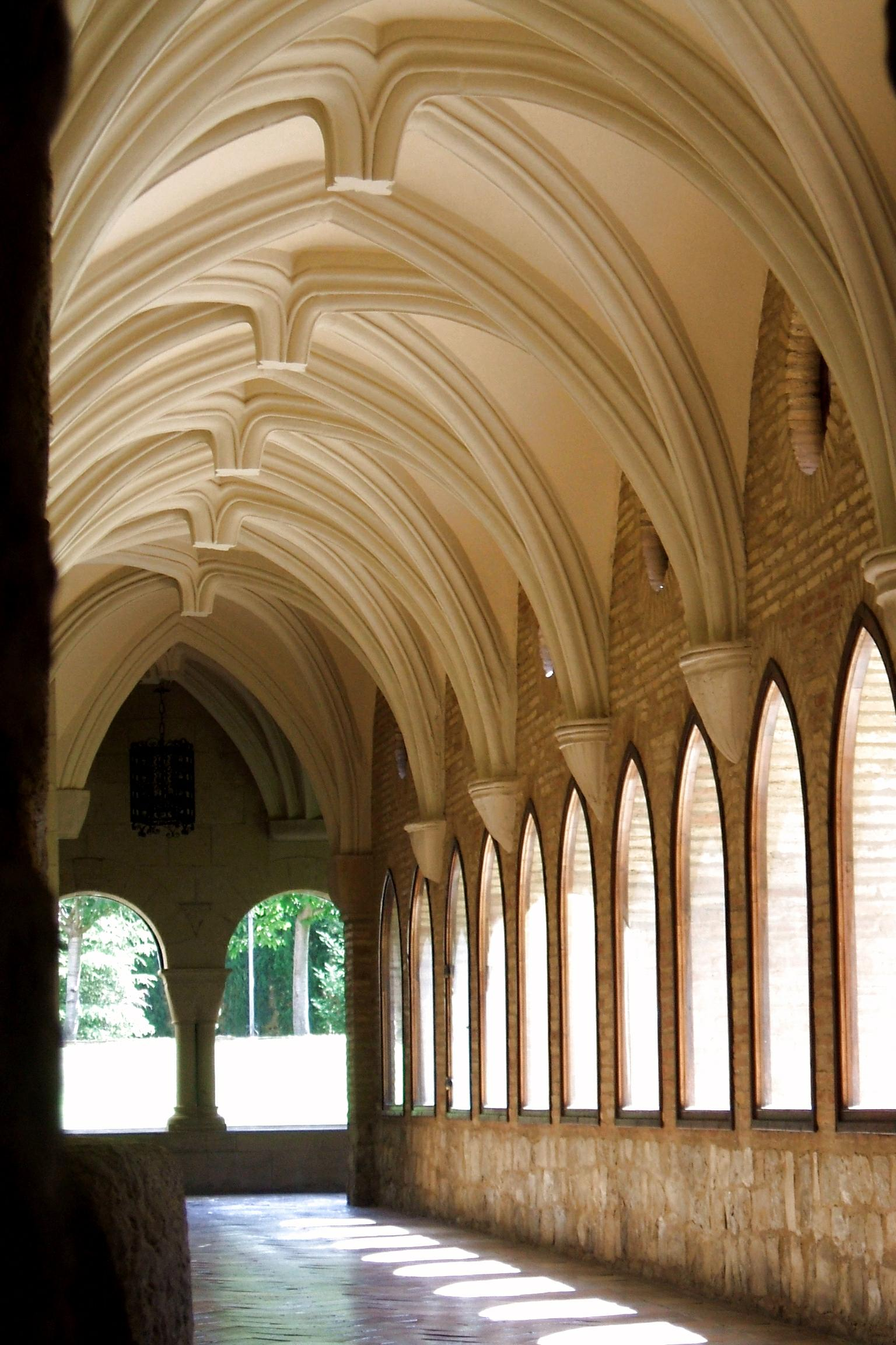 Ala del claustro del Monasterio femenino trapense (Cistercienses OCSO) de Santa María de la Caridad, en Tulebras (Navarra, España)